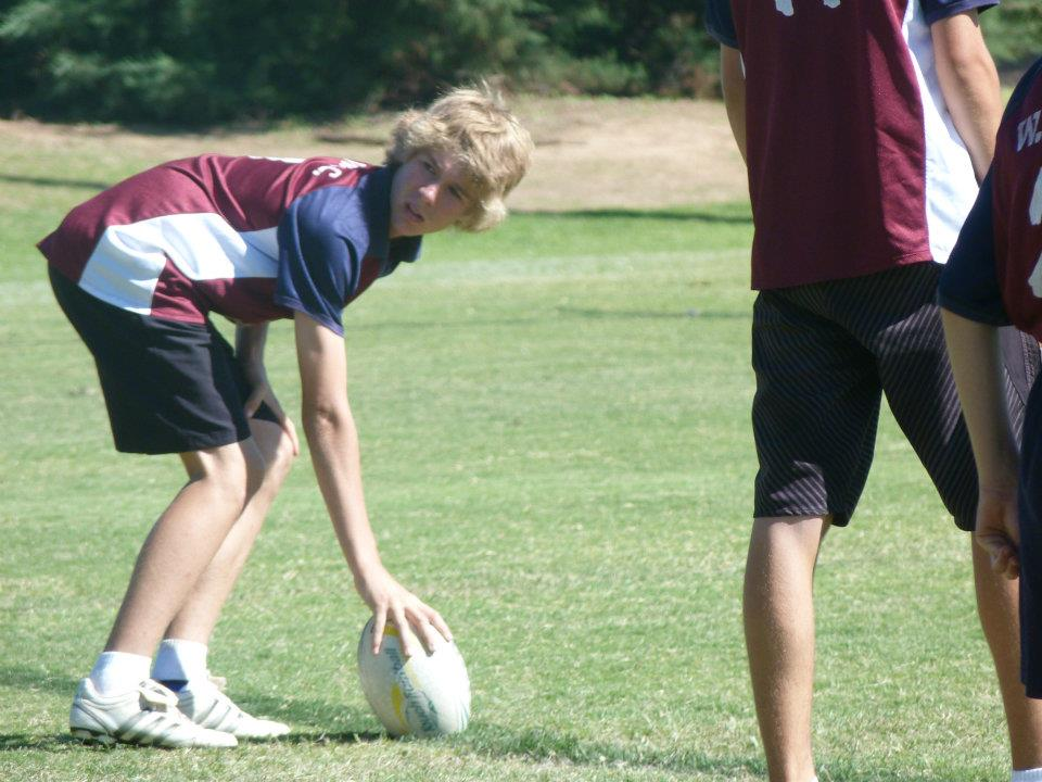 trai in action